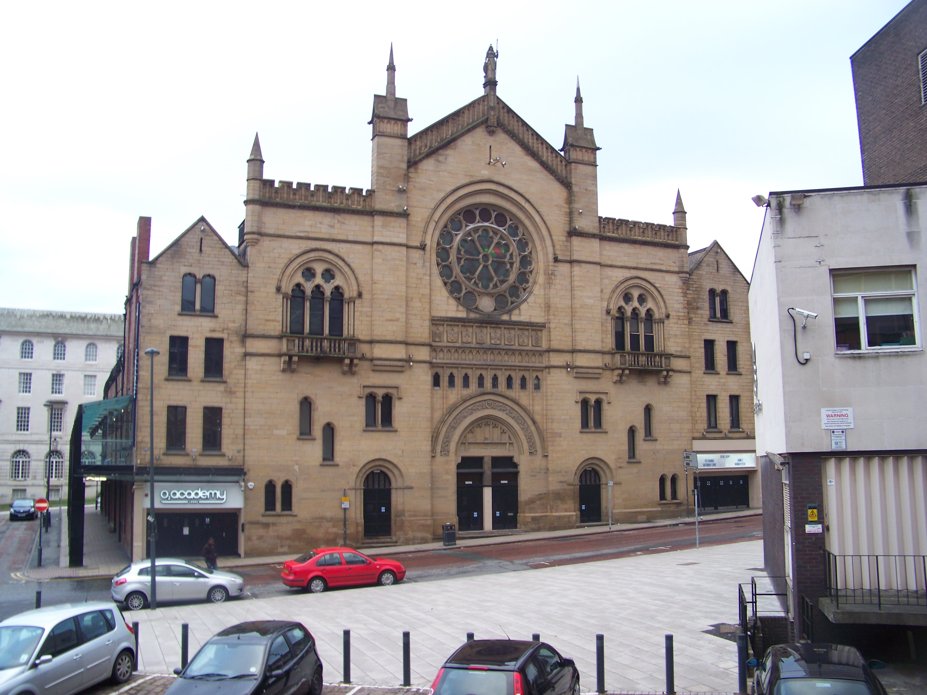 The O2 Academy (formely Creation and the Town and Country club), Leeds. Taken on the afternoon of Saturday the 23rd of January 2010.